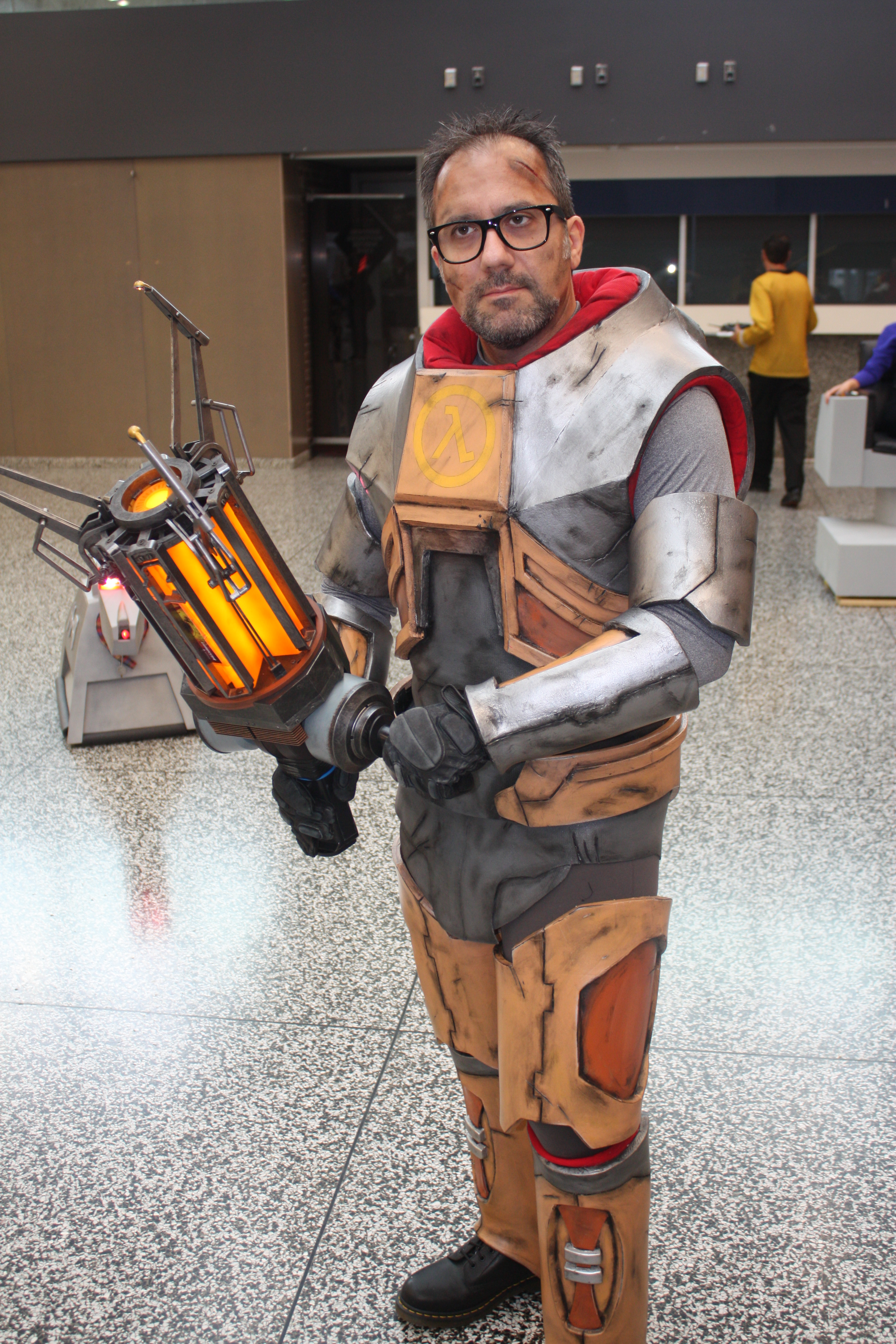 Cosplay of Gordon Freeman from Half-Life at Montreal Comiccon 2014.